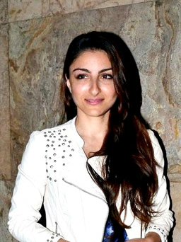 Soha Ali Khan at the special screening of 'Mr Joe B. Carvalho', 2014.